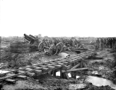 Western Front: Western Front (Belgium), Ypres Area. A gun crew operating a 9.2 inch howitzer. Shells are lined up for loading on the ground in front of the group of gunners. The ammunition for this gun was brought up on the light railway track that can be seen running across the foreground.